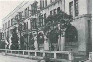 Honkawa Primary and Higher Primary School (present-day Honkawa Elementary School Peace Museum) before the atomic bomb around 1935.